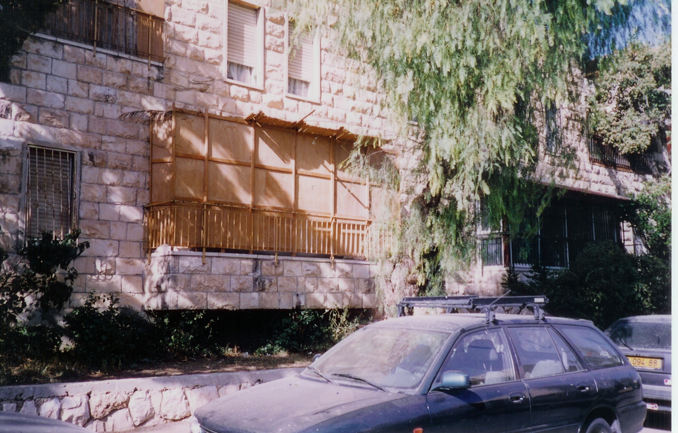 Photo of sukkah on an apartment balcony in Jerusalem. Photo by Yoninah, taken on 23 October 2005.